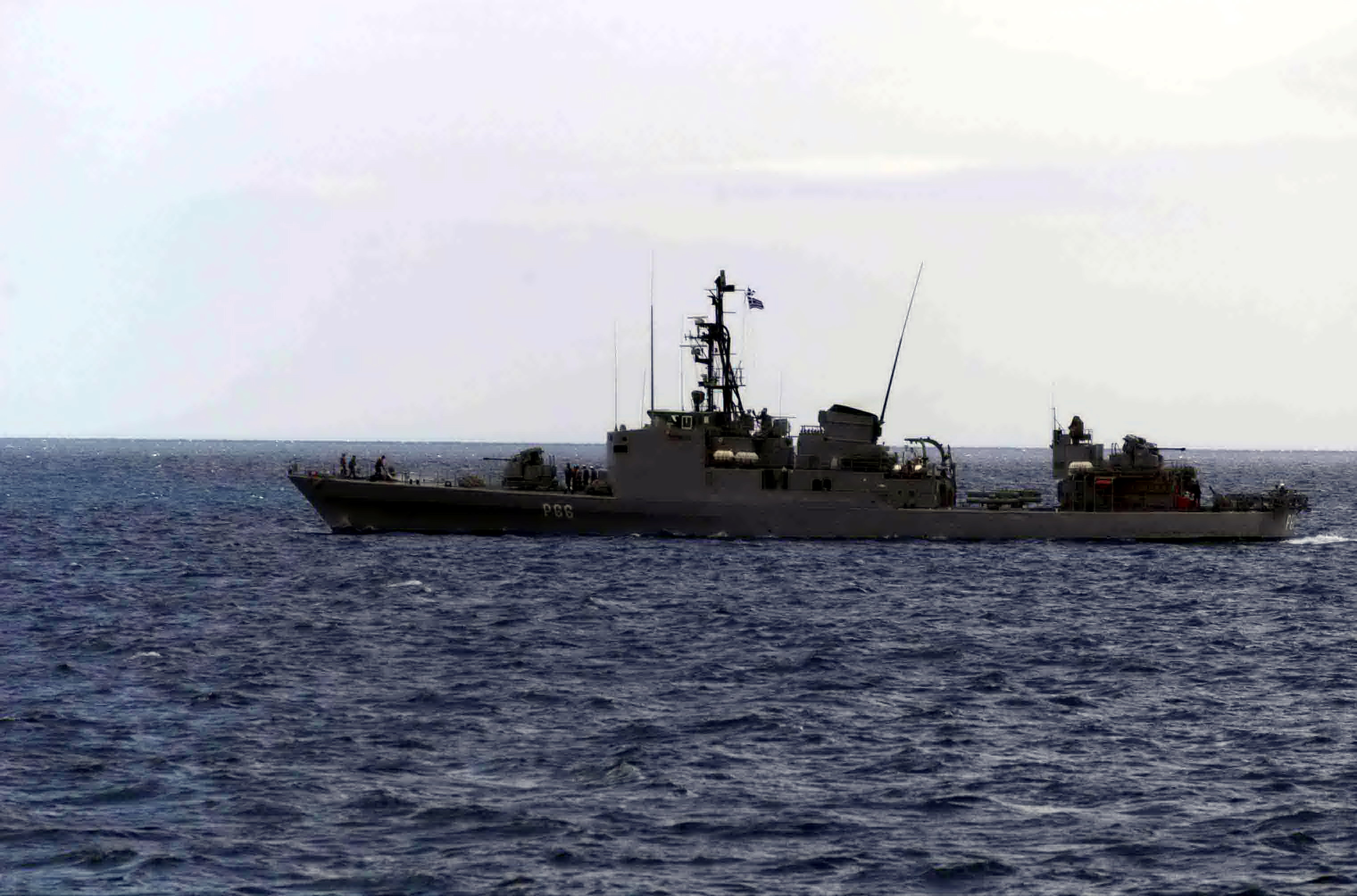 Hellenic Navy Thetis class Agon (P-66)